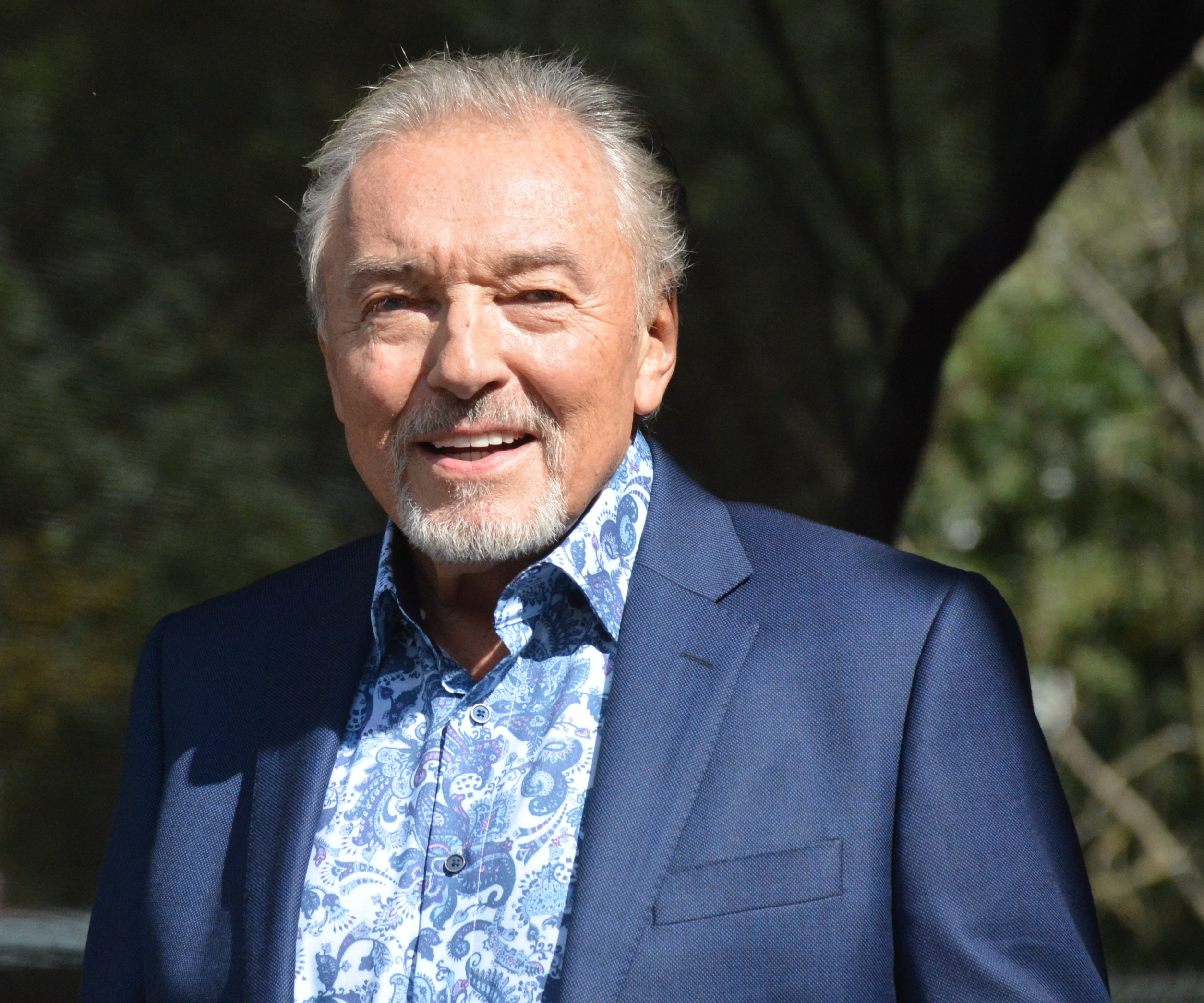 Karel Gott, Czech vocalist